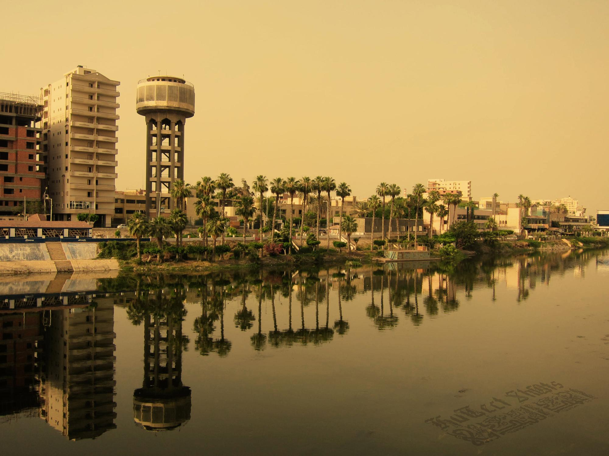 El Mansoura (Arabic: المنصورة, al-manṣūrah) is a city in Egypt, with a population of 420,000. It is the capital of the Dakahlia Governorate. Mansoura lies on the east bank of the Damietta branch of the Nile, in the Delta region. Mansoura is about 120 km northeast of Cairo. Across from the city, on the opposite bank of the Nile, is the town of Talkha. Mansoura and Talkha together form a metropolitan city. More.